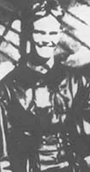 Edgar Gardner Tobin. 103d Aero Squadron